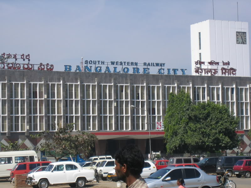 bangalore city railway